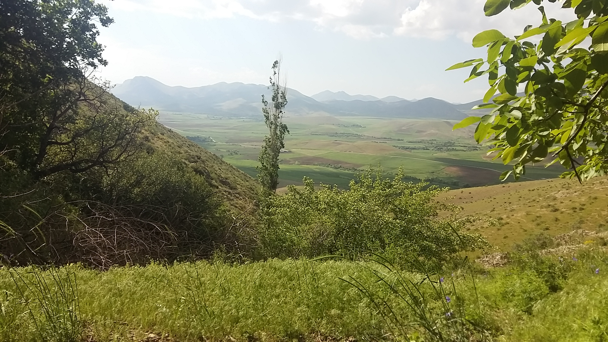 دره خاله